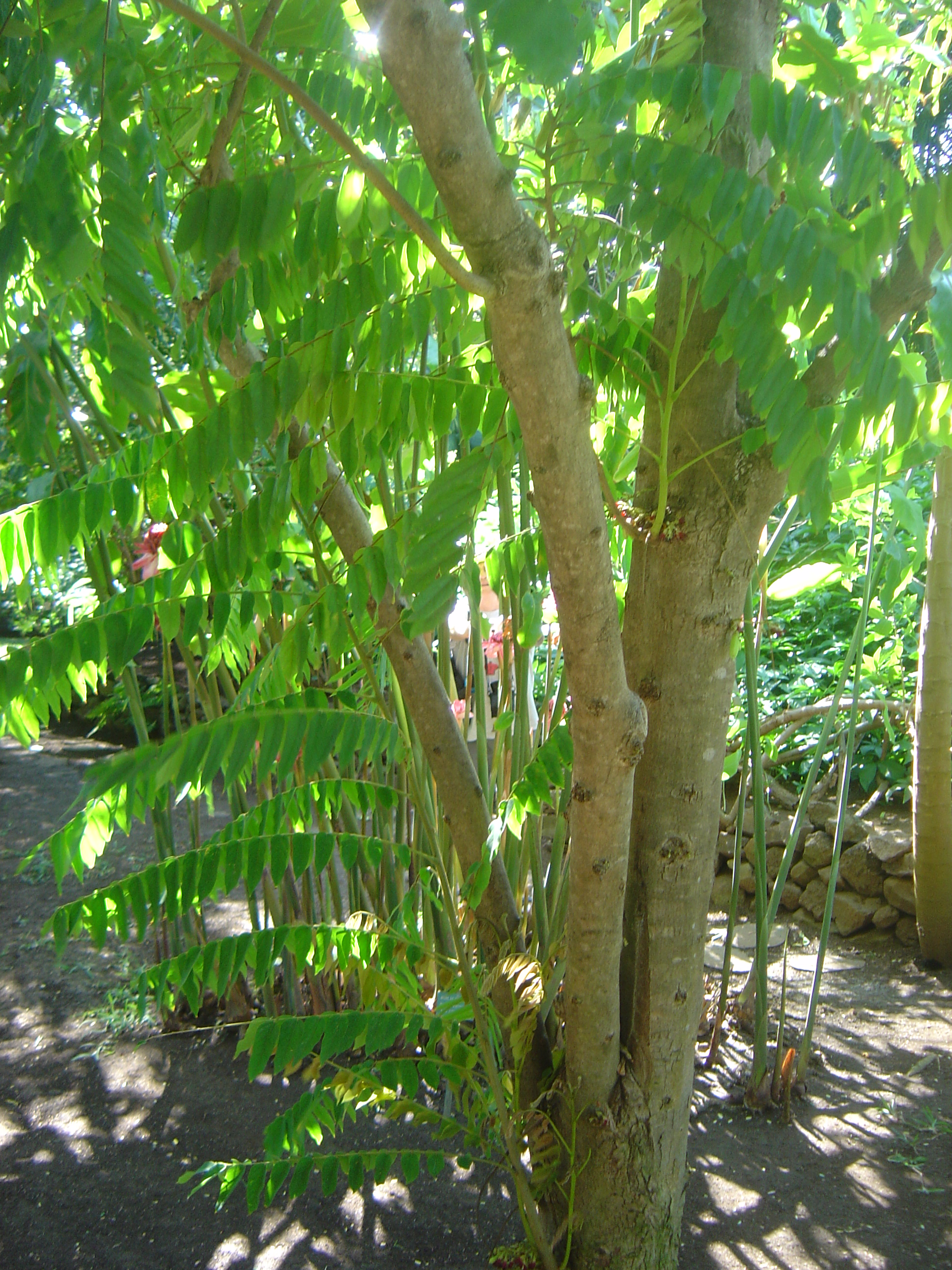 Photograph taken at the Jardin d'Éden botanical park, Saint-Gilles les Bains (commune of Saint-Paul), Réunion Island (Indian Ocean, a part of the French Republic).